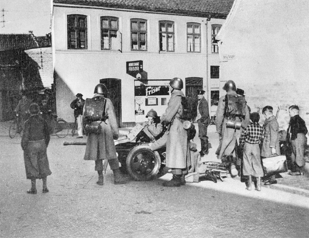 Fotograf: Thy Christensen Se flere billeder her: Download and rights: More about The Museum of Danish Resistance (Frihedsmuseet)